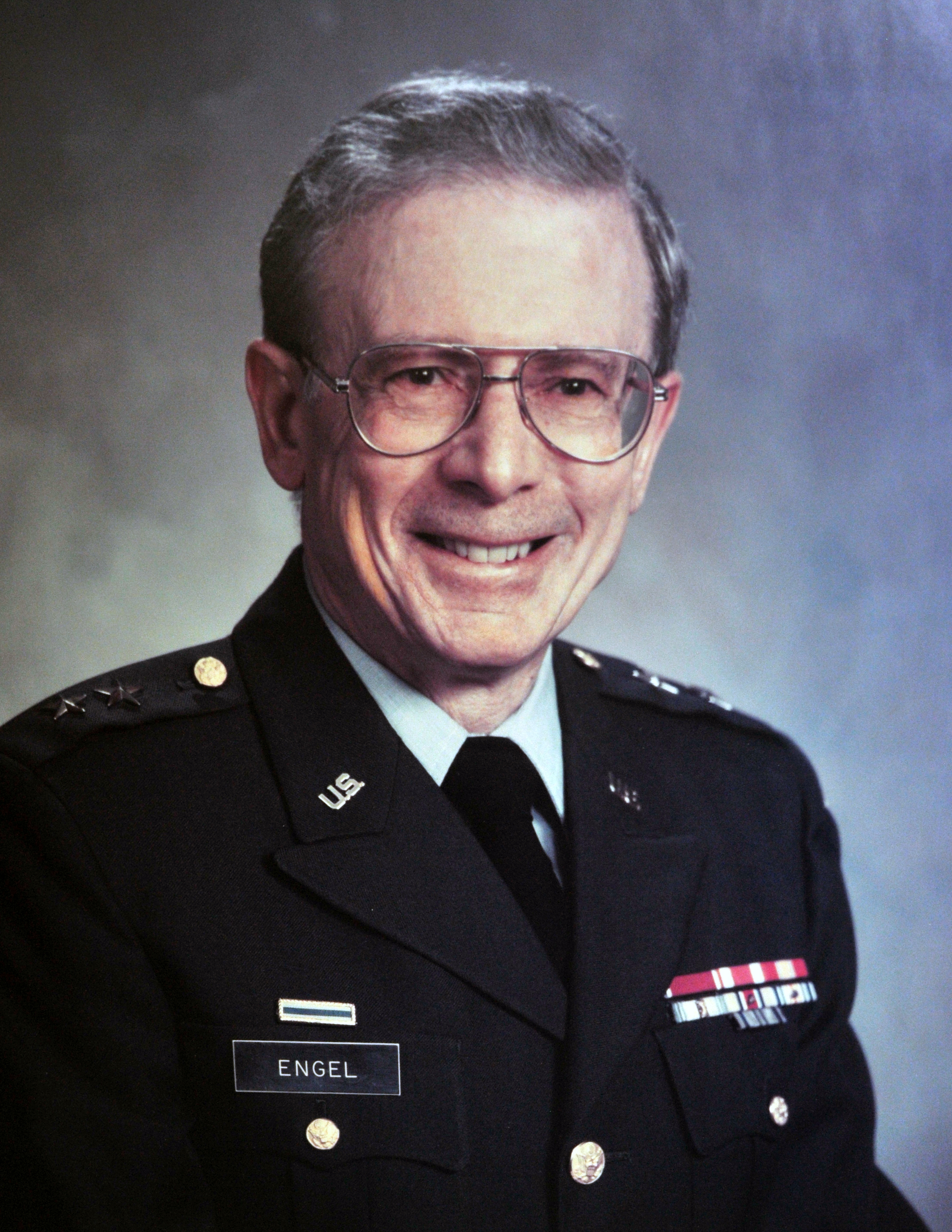 William F. Engel